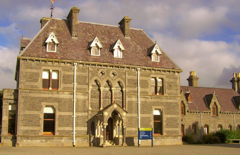 Picture of the Landlord's house beside the Museum of Country Life, Castlebar, Co Mayo, Ireland.